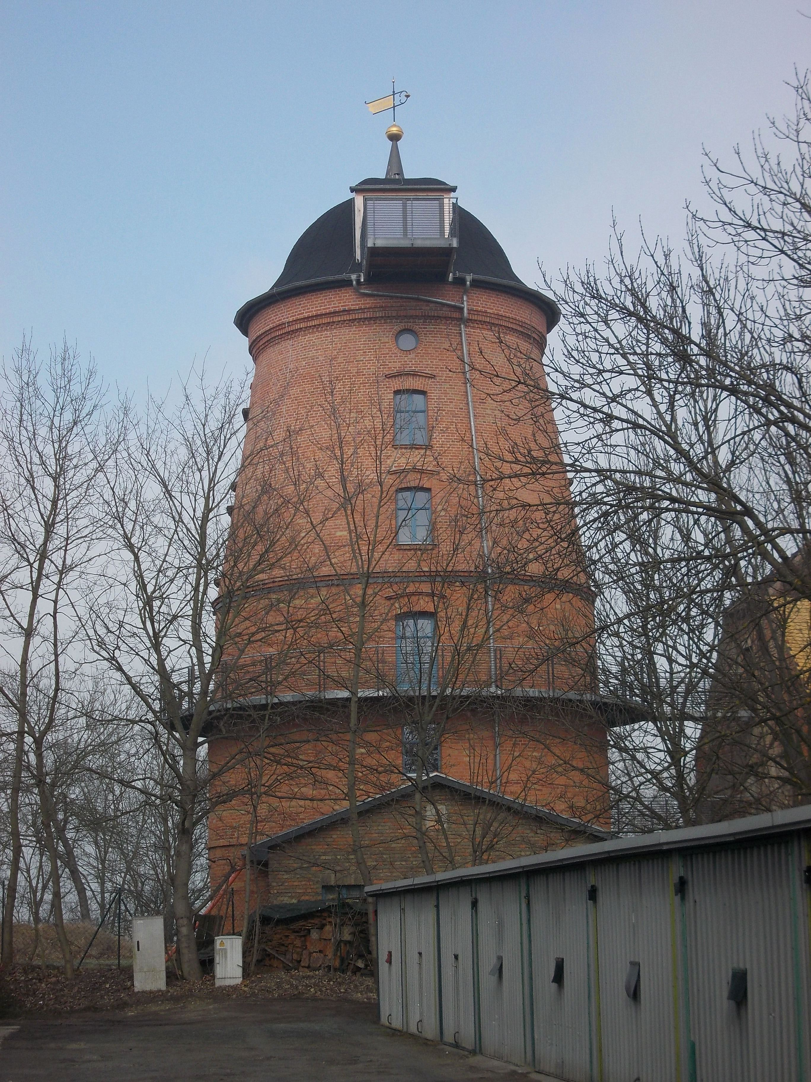 Tower mill in Naumburg (district: Burgenlandkreis, Saxony-Anhalt)